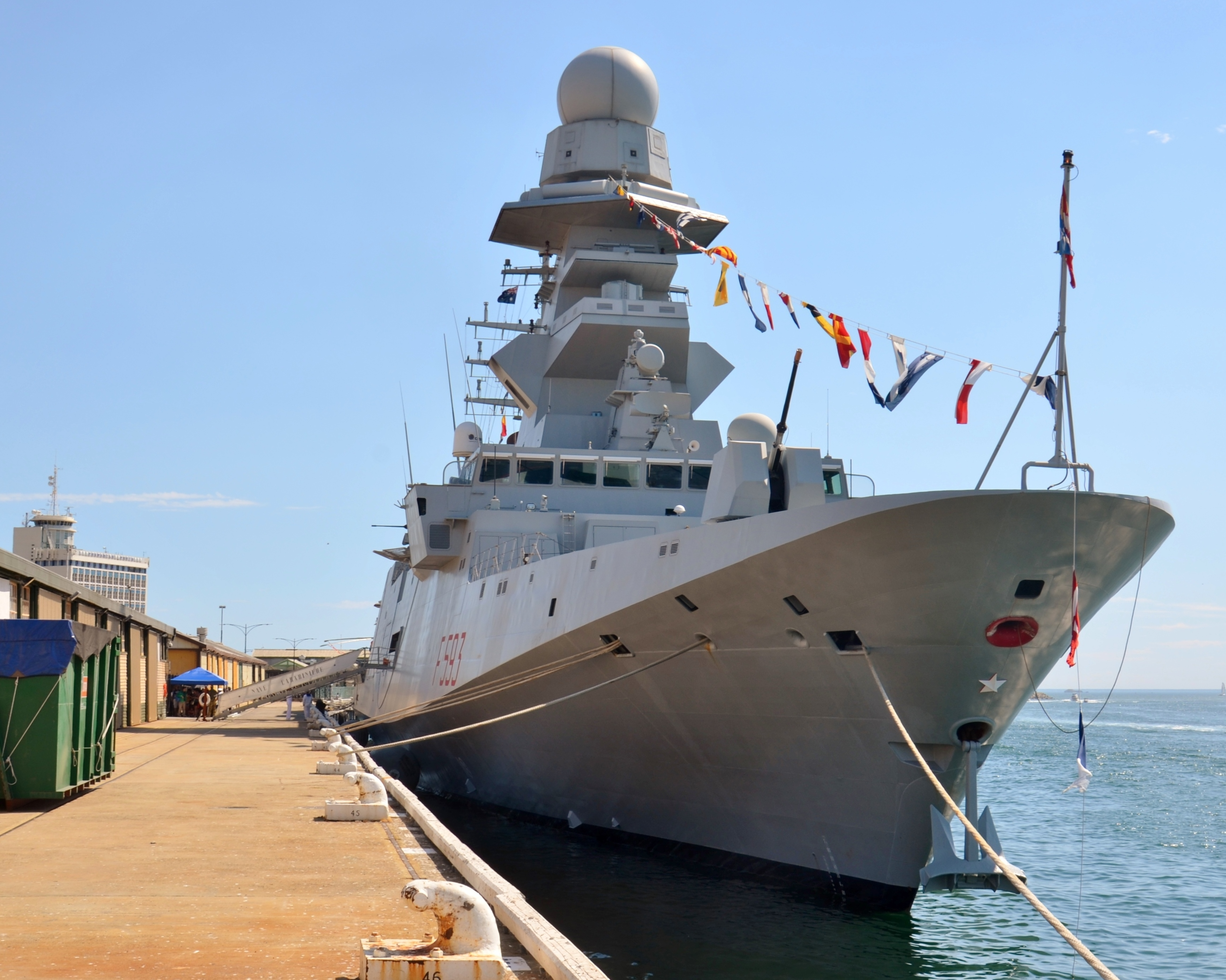 Italian frigate Carabiniere (F593), on display at Victoria Quay, in the inner harbour of the Port of Fremantle, Western Australia.